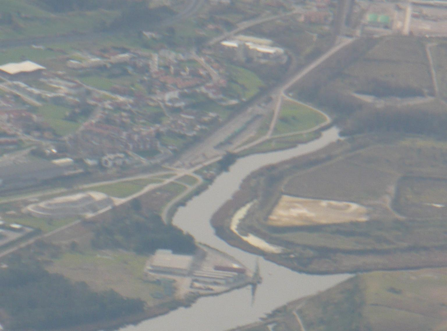 Requejada (Cantabria) and its port from an airliner